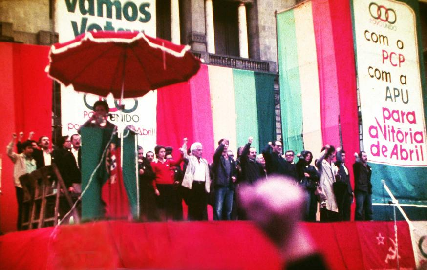 Álvaro Cunhal, a demonstration in Oporto, in September, 1980